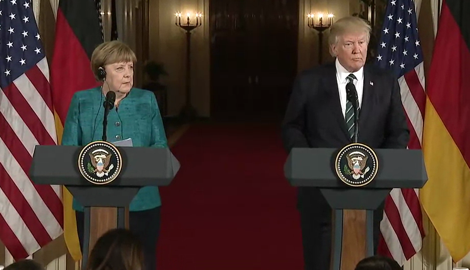 German Chancellor Angela Merkel and U.S. President Donald Trump at their joint press conference in the White House in Washington, D.C.